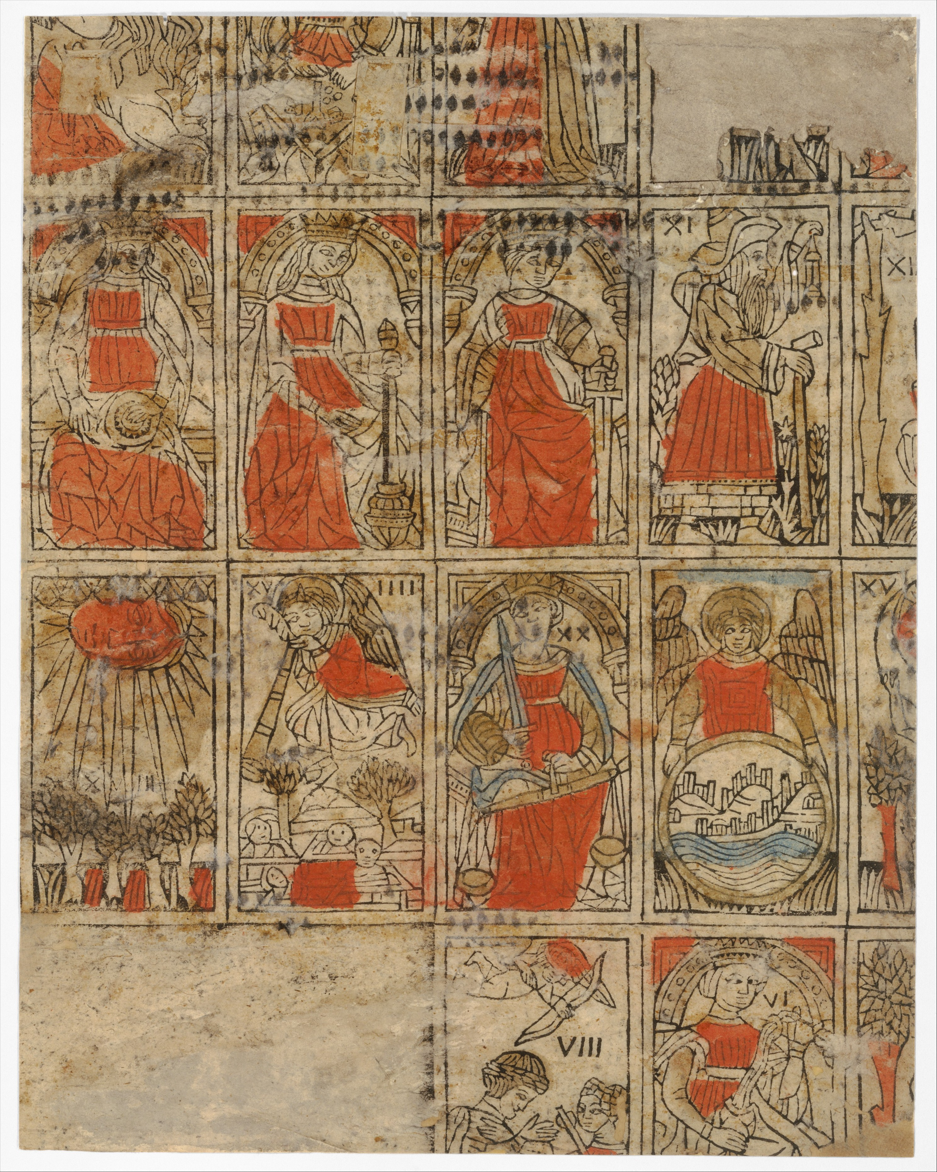 Print; Prints